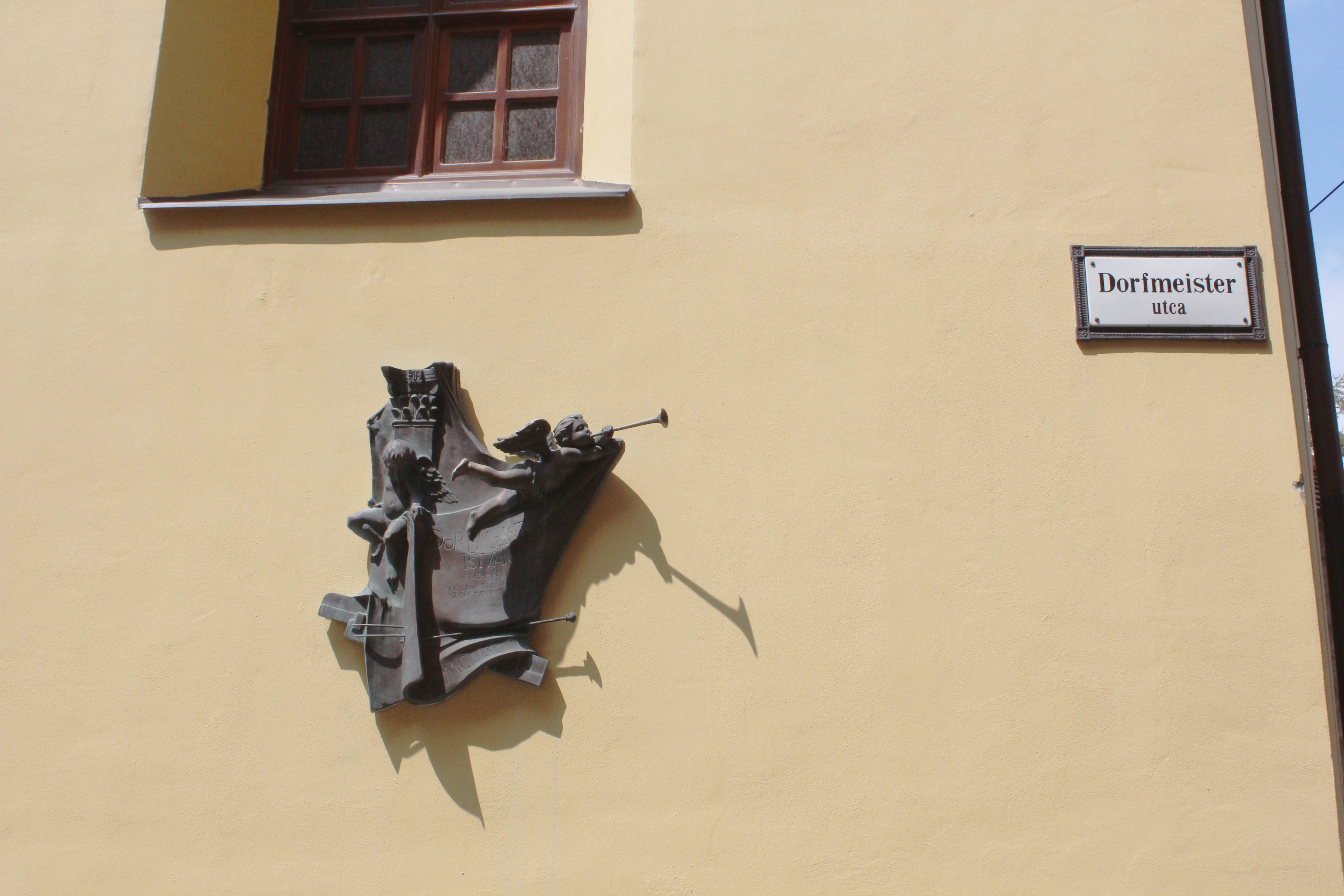 Commemorative plaque of István Dorfmeister (Sopron, Hungary). Sculptor: Tamás Soltra E., 1997.